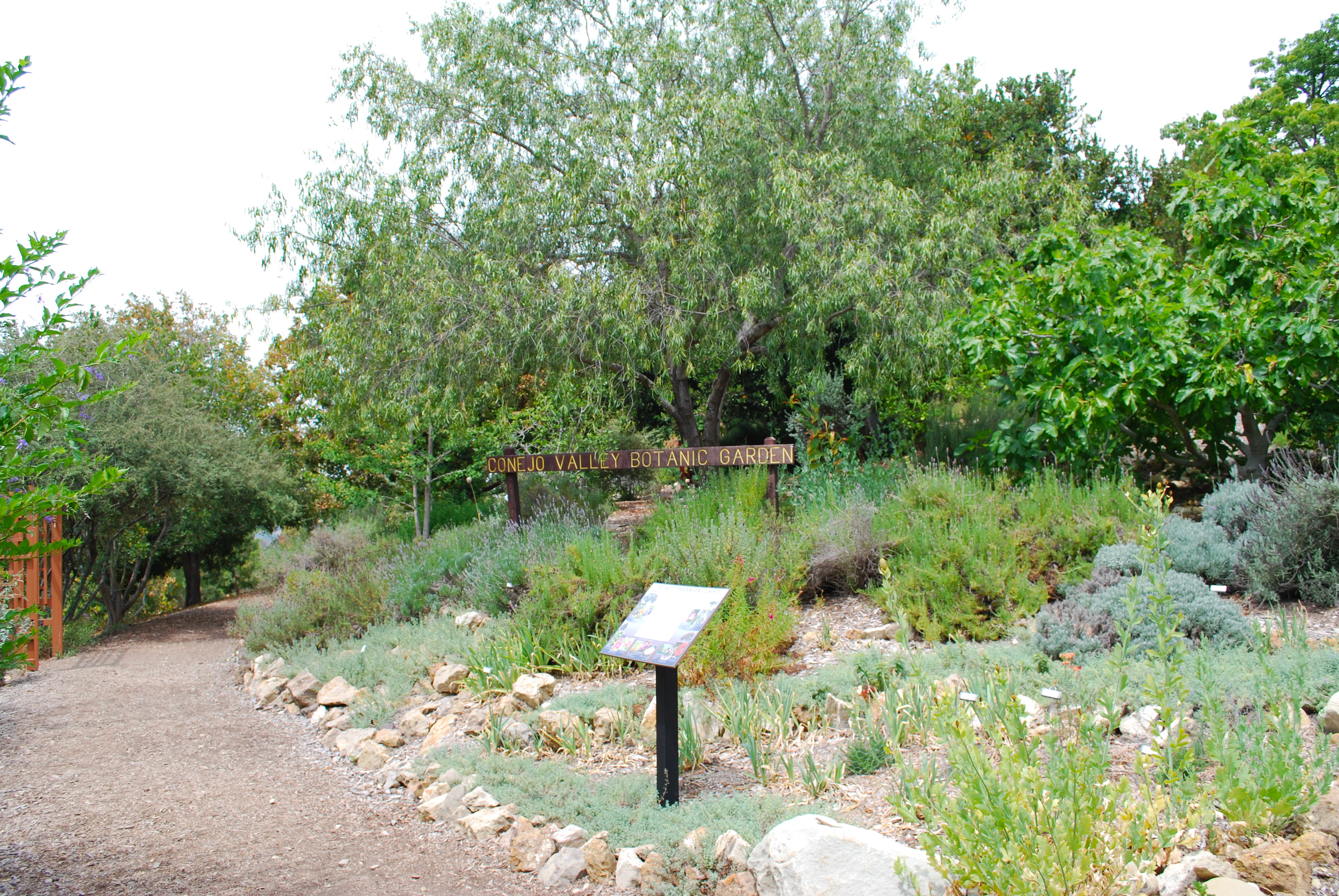 The Mediterranean Garden at Conejo Valley Botanic Garden, Thousand Oaks, CA.